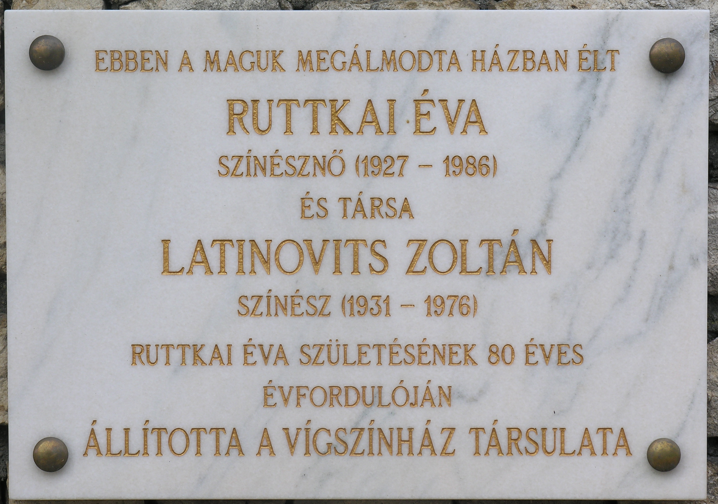 Commemorative plaque of Éva Ruttkai and Zoltán Latinovits, Budapest District II, Endrődi Sándor Street No 67